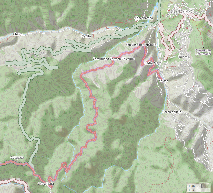 Camino a los Yungas, detail with the old (in red) and new (in green) sections west of Coroico.